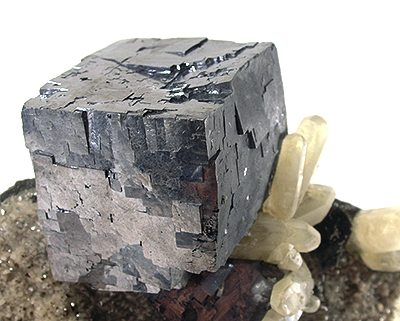 Calcite, Galena Locality: Sweetwater Mine (Milliken Mine; Frank R. Milliken; Blair Creek; Ozark Lead Company Mine; Adair Creek; Logan Creek), Ellington, Viburnum Trend District, Reynolds County, Missouri, USA (Locality at ) Size: large cabinet, 18.5 x 14.8 x 8.6 cm Galena and Calcite Galena is certainly common enough, but a large specimen combining the quality and aesthetics you see here...that is most uncommon! This piece features a pristine, 3-dimensional, SUPERB galena crystal sitting perfectly atop matrix, showing from ALL angles 360-degrees around, and perched amongst a nest of complementing calcites. Without the calcite accent, it would be a little more boring and typical. With the calcites and the placement of the crystal together, it is one of the finest for its size I have ever seen, amongst thousands of such pieces over 20 years. The galena measures 5.5 x 5 x 5 cm in size and is perfect! IT IS MUCH MORE LUSTROUS IN PERSON, TOO!